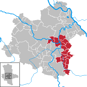 VG Nienburg (Saale) in Saxony-Anhalt - District Salzlandkreis